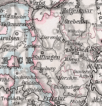 Detail from a map of Hesse.